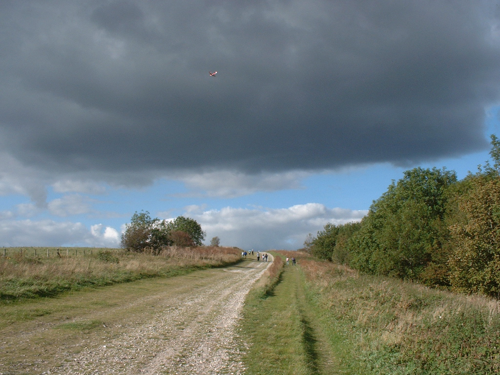 View along the path of South Downs Way in Sussex.